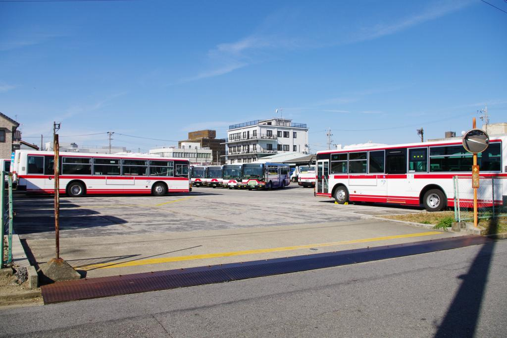 Meitetsu Bus Okazaki Depot